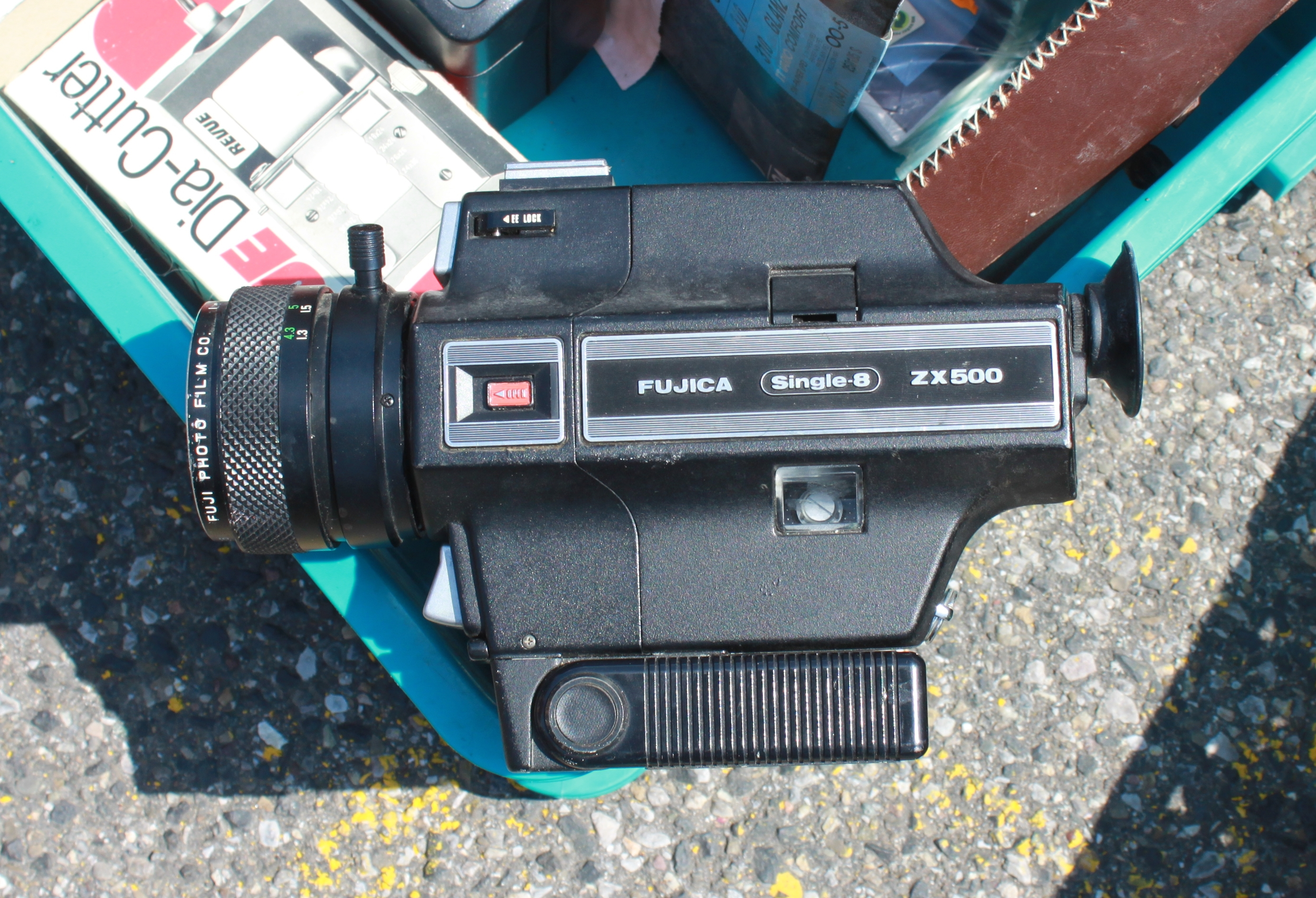 Fujica 8 mm filmcamera ZX500 Filmformat: Single8 Fujica ZX500 Year: 1975 - 1977 Lens: Fujinon Z lens 1.3 / 7.5 - 36mm (Filter thread: 55mm) Motor/Manual zoom Wide-angle macro Focus method: split image Exposure: cds servo EE, individual exposure window, EE-lock Film Speed Setting: ASA25, 50, 100, 200, 400 Frame rates: 9, 18fps Shutter angle: 230° No sound